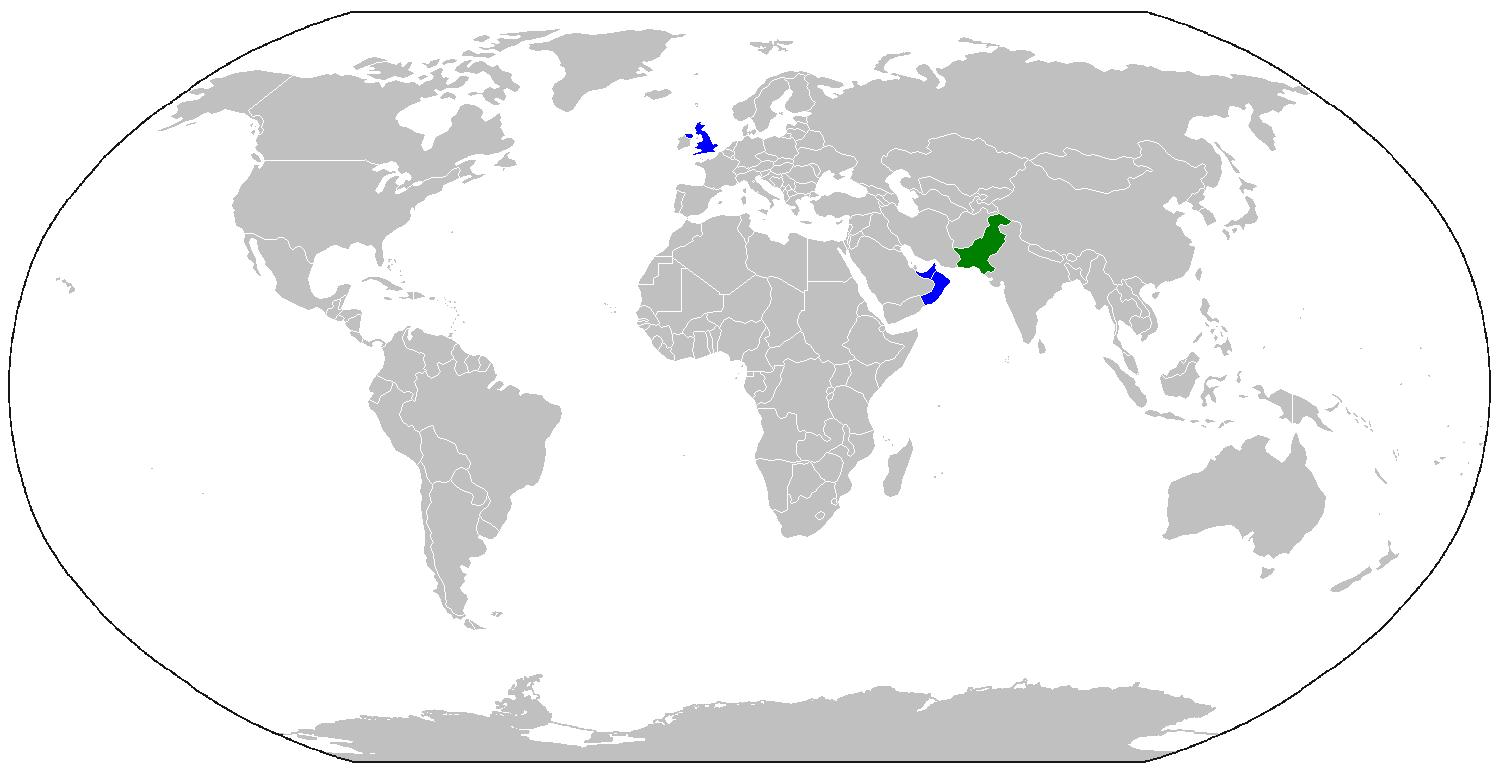 A Map of the current and past destinations served by airblue. The blue represents the countries airblue currently flies to, whereas the green represents Pakistan.